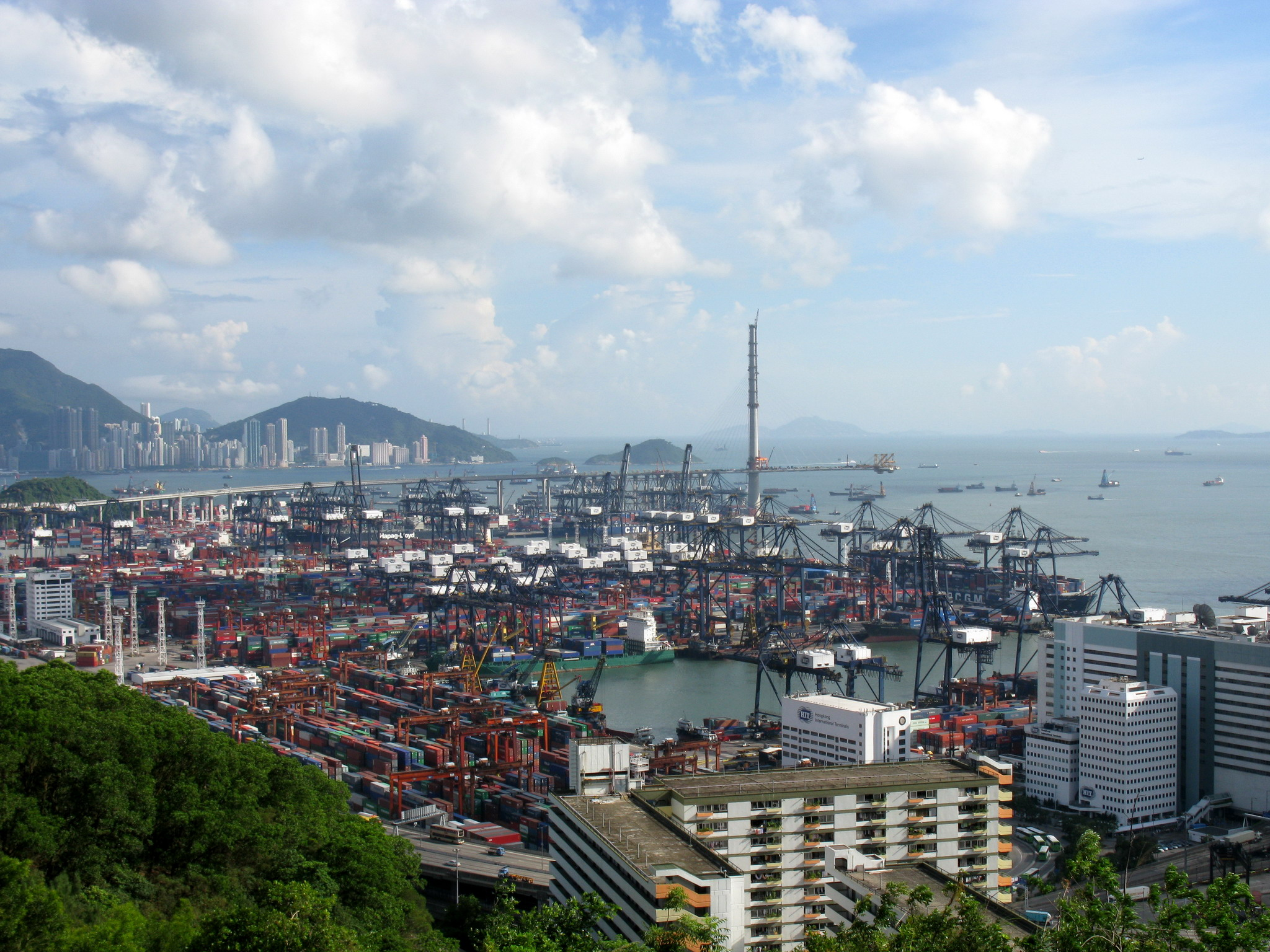 Kwai Tsing Container Terminals